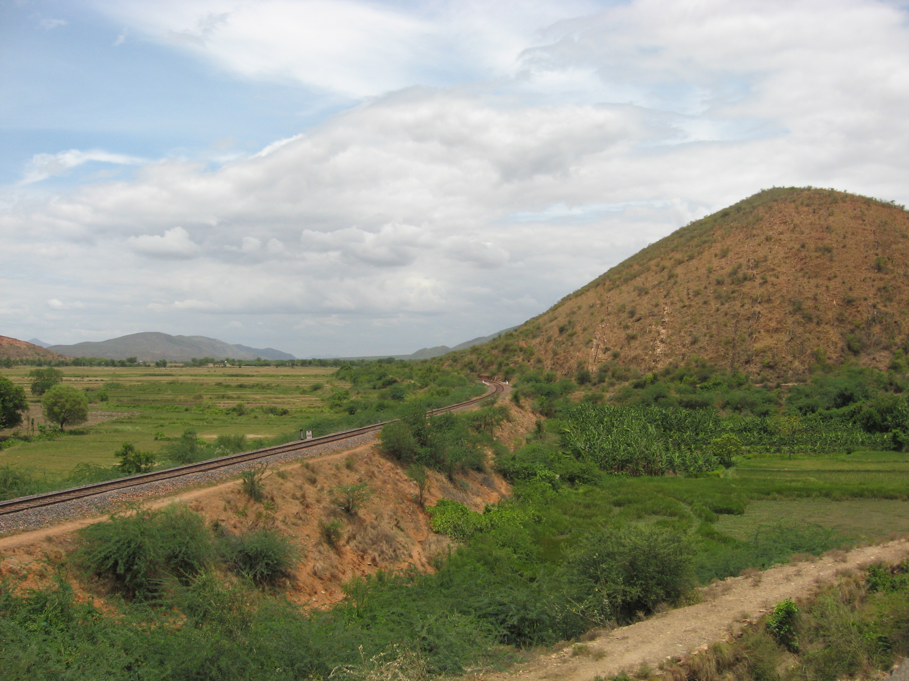 The start of the Nallamala Ranges at Cumbum